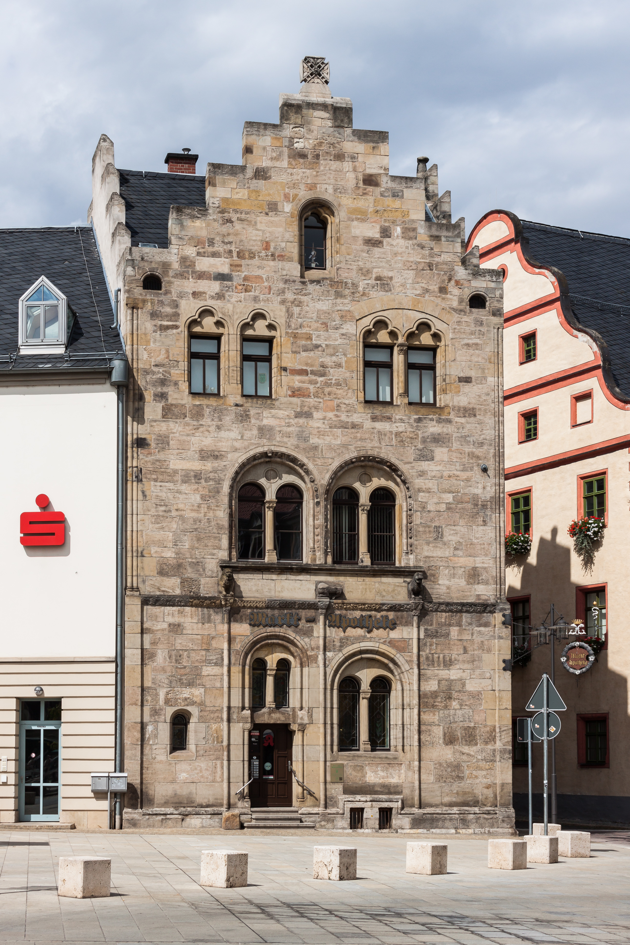 The Marktapotheke (marketplace pharmacy) was built in 1170 as a residential tower. It is the most important romanesque building in Saalfeld, Thuringia, Germany.